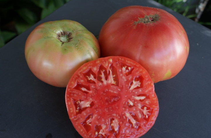 Tomate corazón de buey Аҧсшәа: Tomate corazón de buey